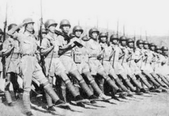 In August, 1942, the Chinese Army in India was officially formed. General Stilwell, Chief of staff in the China Theatre, was appointed Commander-in-Chief, with General Lo Cho-ying as his deputy.